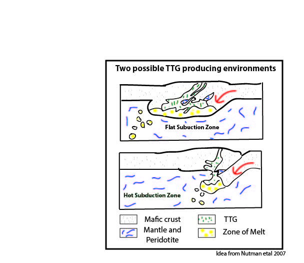 Rock types and when they were formed during the IGB formation.